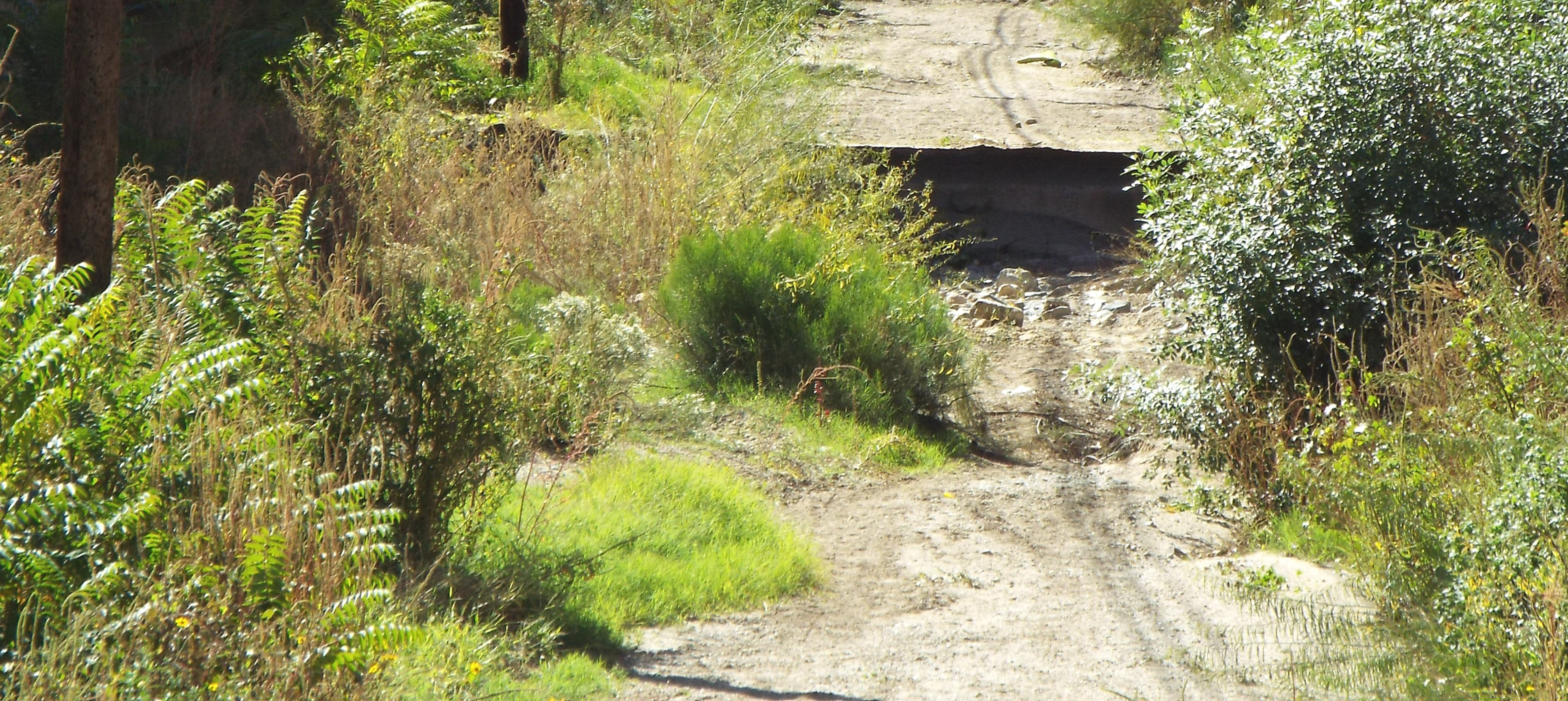 Miami, Az-Bloody Tanks Wash, site of the Bloody Tanks Massacre in 1864